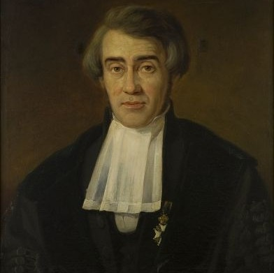 Portrait around 1870